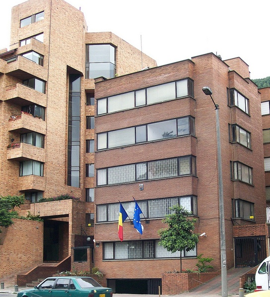 The embassy of Romania in Bogotá, Colombia. European Union flag present next to the Romanian.